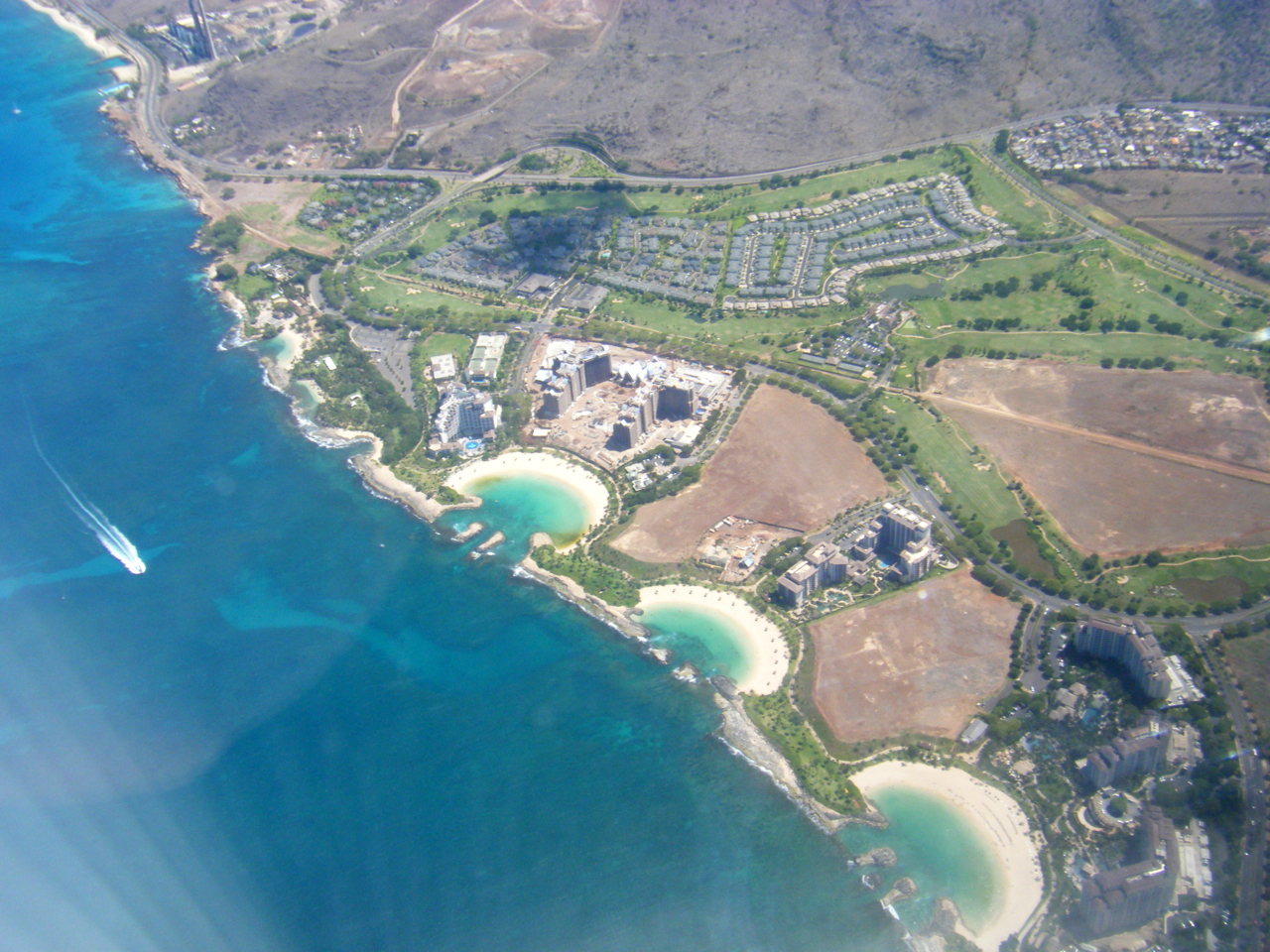 Ko Olina Resort is a 642-acre master-planned vacation and residential community on the leeward coast of Oahu, 17 miles (27 km) northwest of Honolulu. Ko Olina has 2 miles of coastal frontage and includes three natural and four man-made lagoons with white-sand beaches.